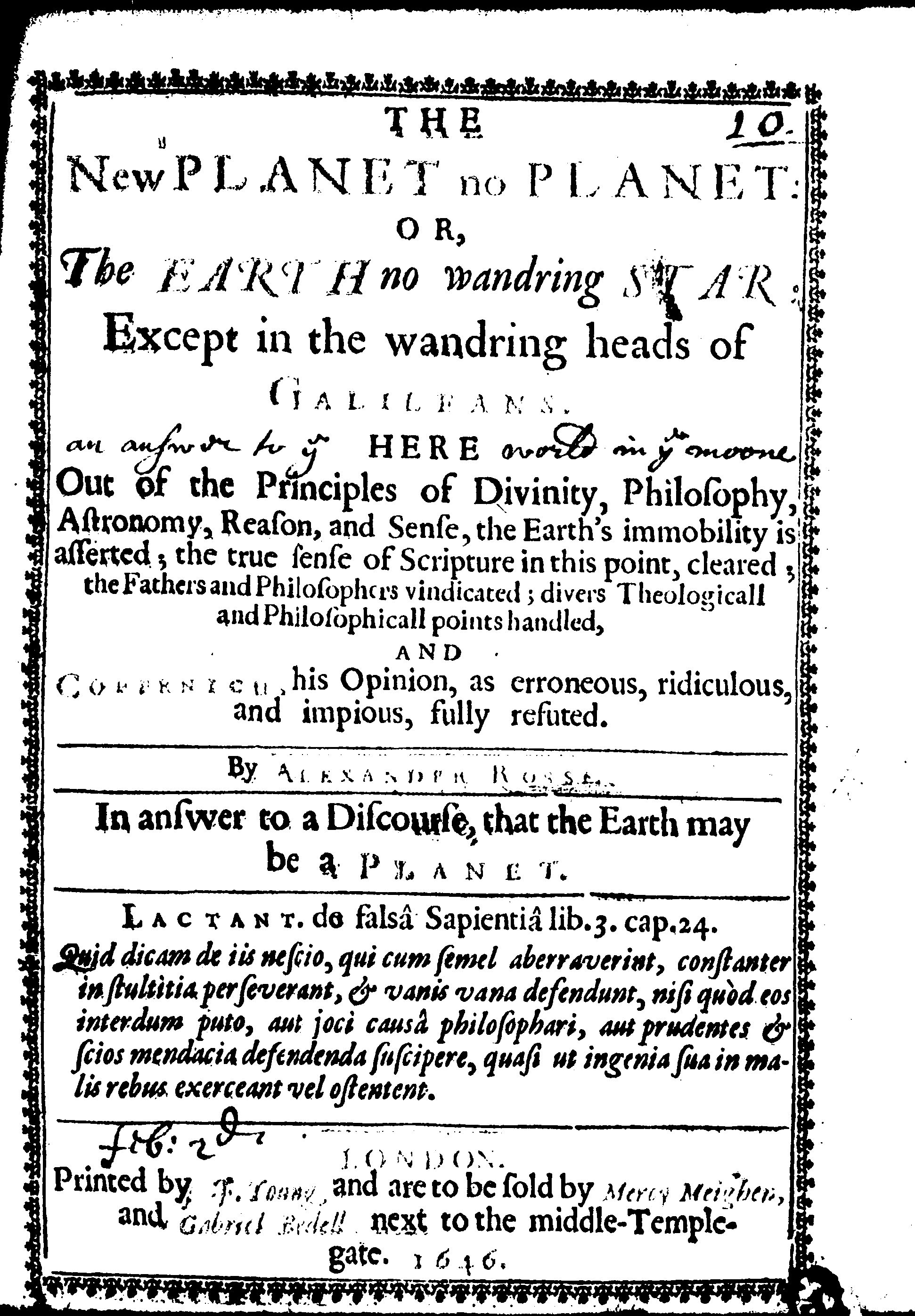 Title page of a book by Alexander Ross (writer).